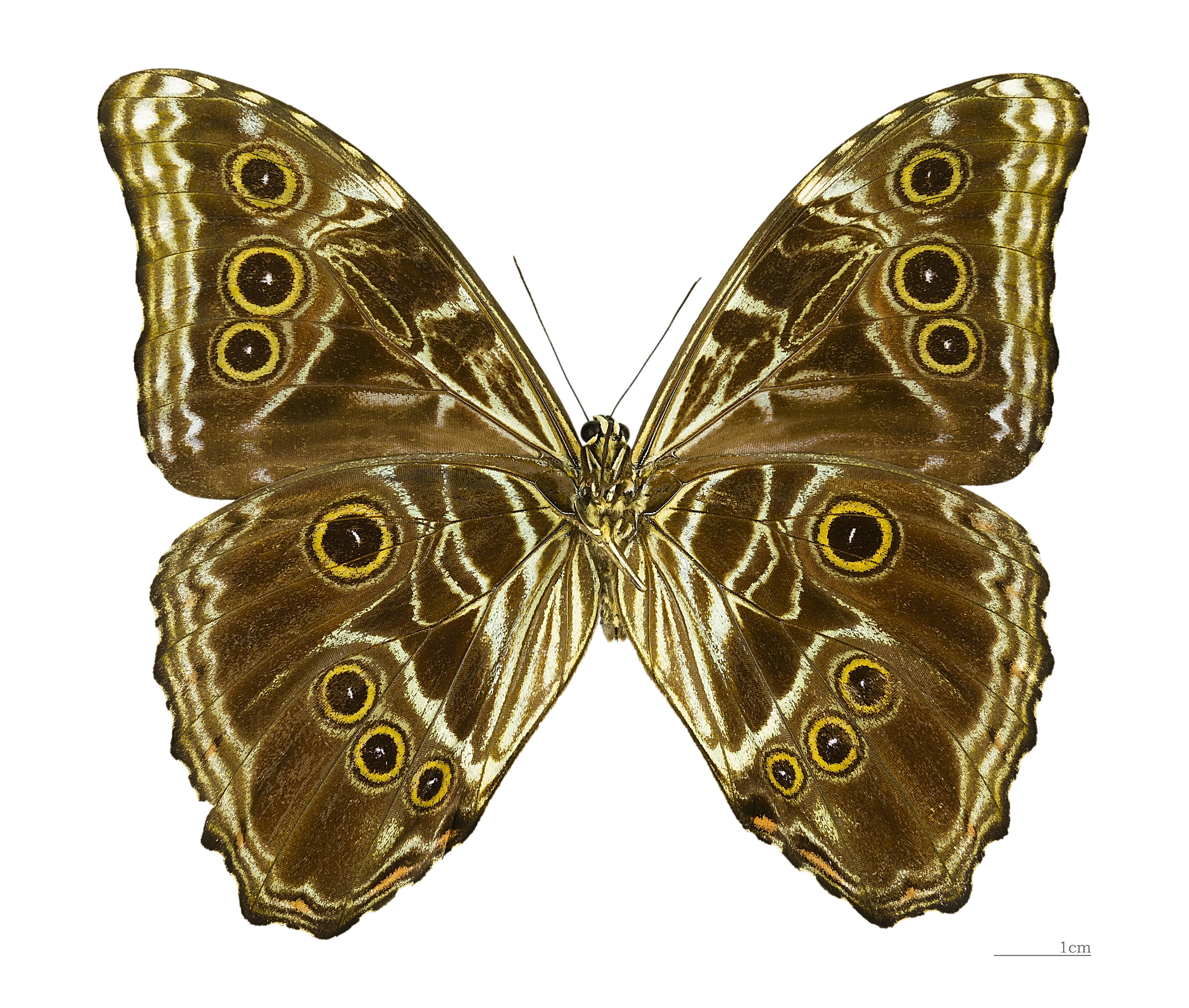 Morpho deidamia deidamia - △ Ventral side